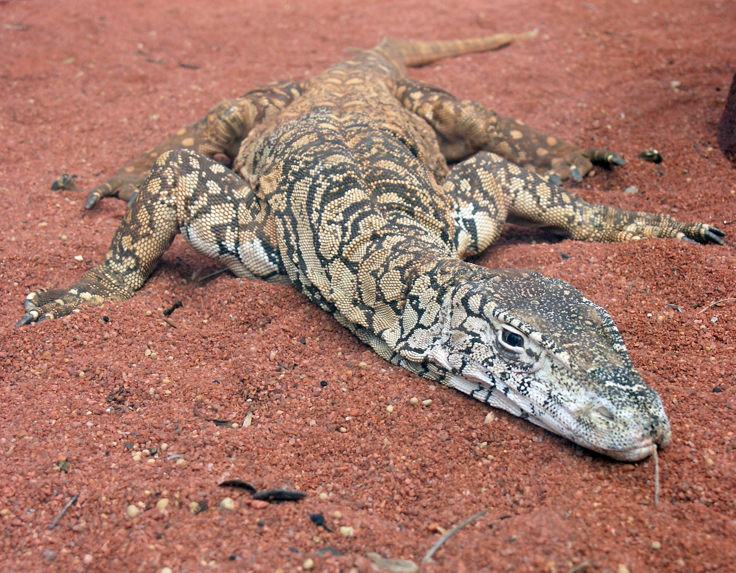 Perentie Lizard Varanus giganteus at Perth Zoo in September 2005.